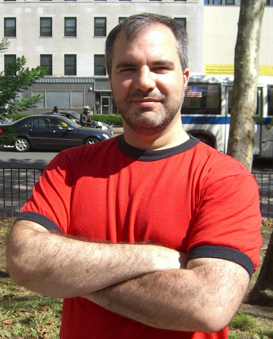 Fantasy author Peter V. Brett at the October 13, 2009 Brooklyn Book Festival. This photo was created by Luigi Novi. It is not in the public domain, and use of this file outside of the licensing terms is a copyright violation.